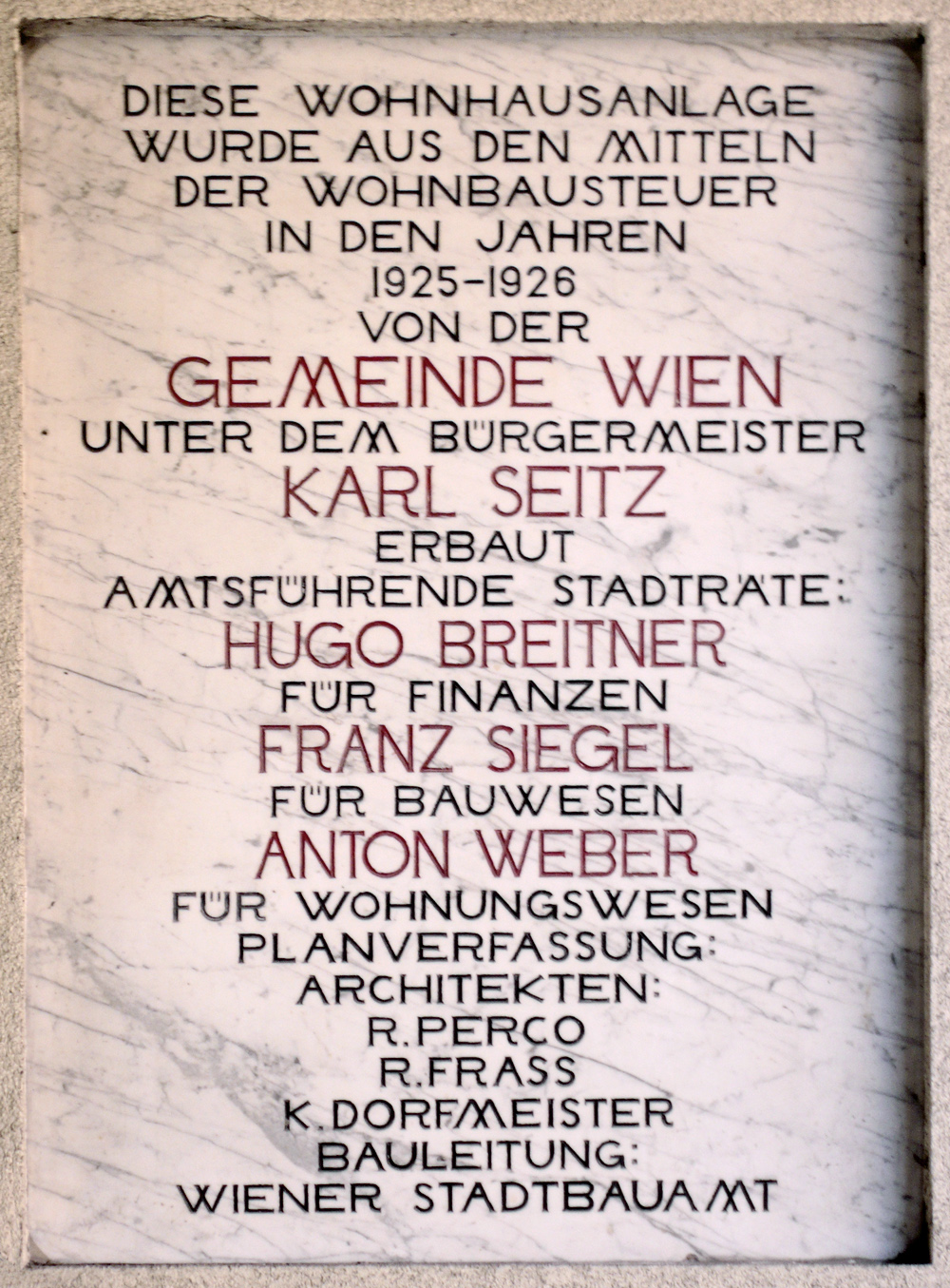 Residential building Professor-Jodl-Hof in Vienna Döbling